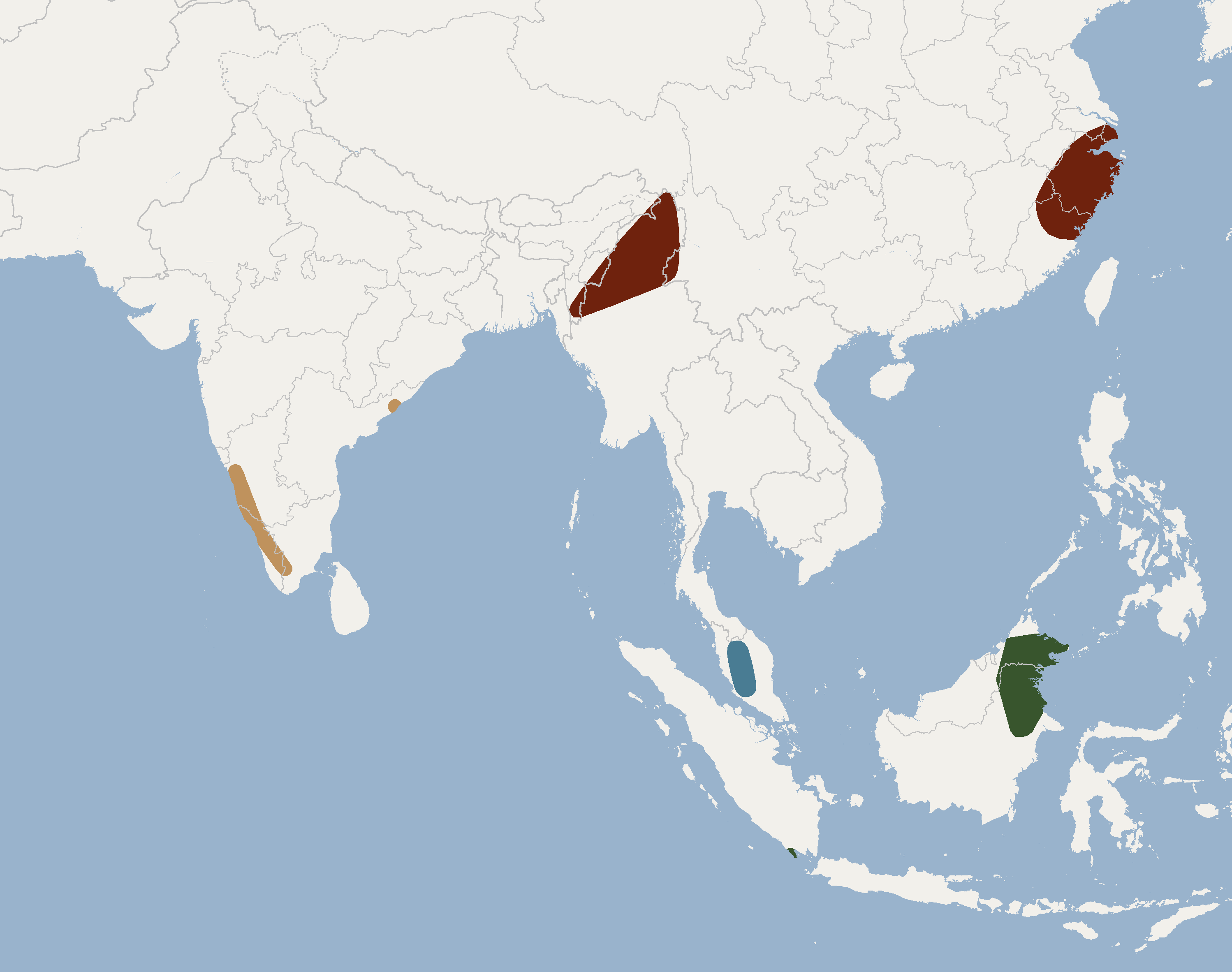 According to Gorfol & al., 2014